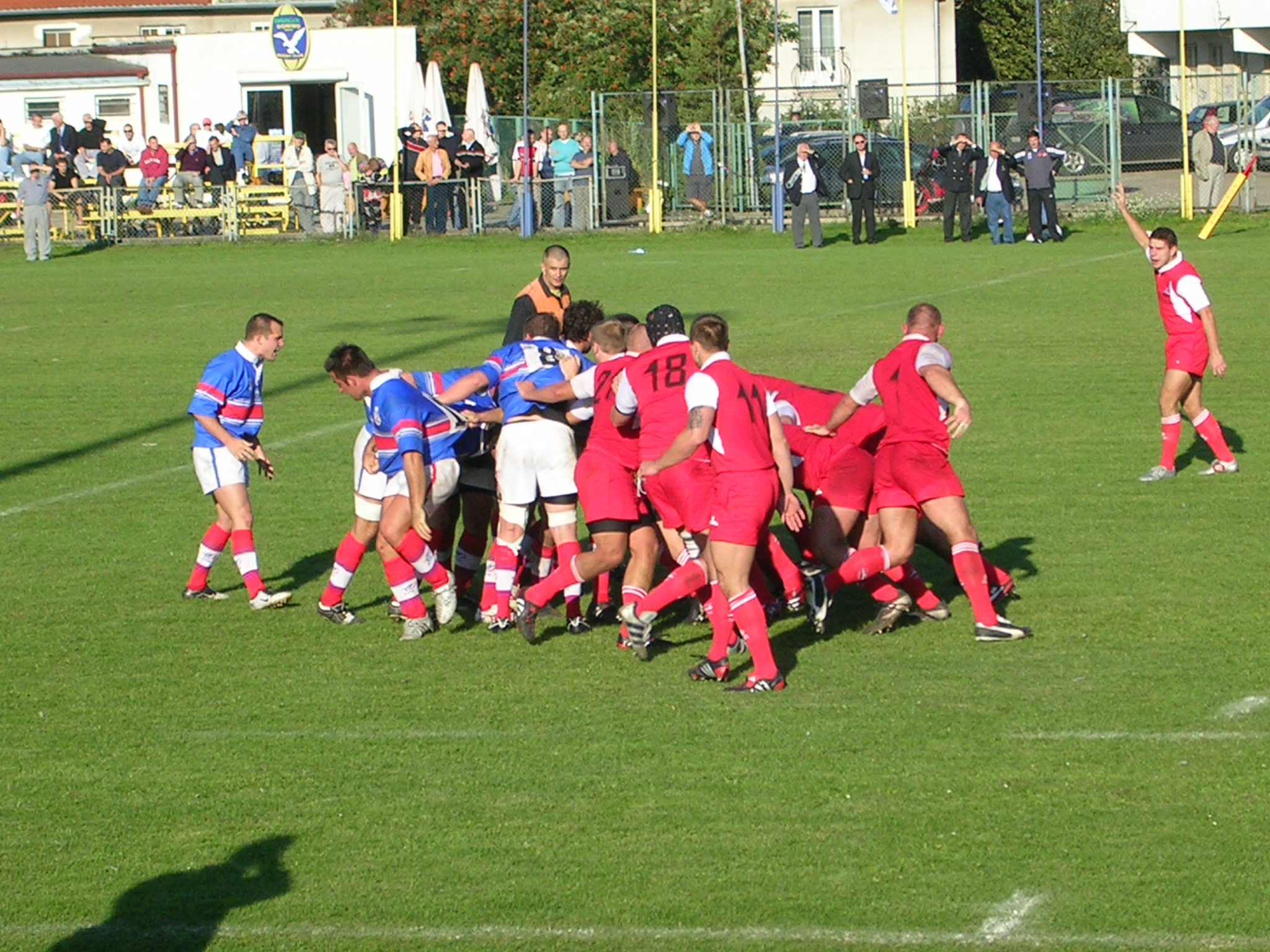 Friendly match between Poland national rugby union team and French Army in Sopot.